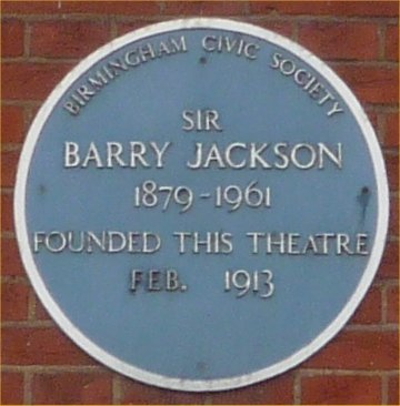 Blue plaque to Barry Jackson, founder of the Repertory Theatre at its original site, now called the Old Rep, on Station Street, Birmingham, England. The plaque is very high on the wall of the Old Rep, but may be seen from the taxi slip-road of New Street Station (Queens Drive). Photographed by me 13 October 2007.